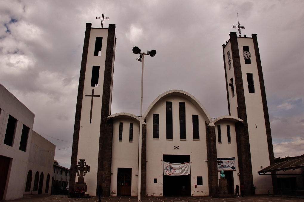 Basilica Nuestra Señora de la Caridad (Huamantla) Estado de Tlaxcala,México.